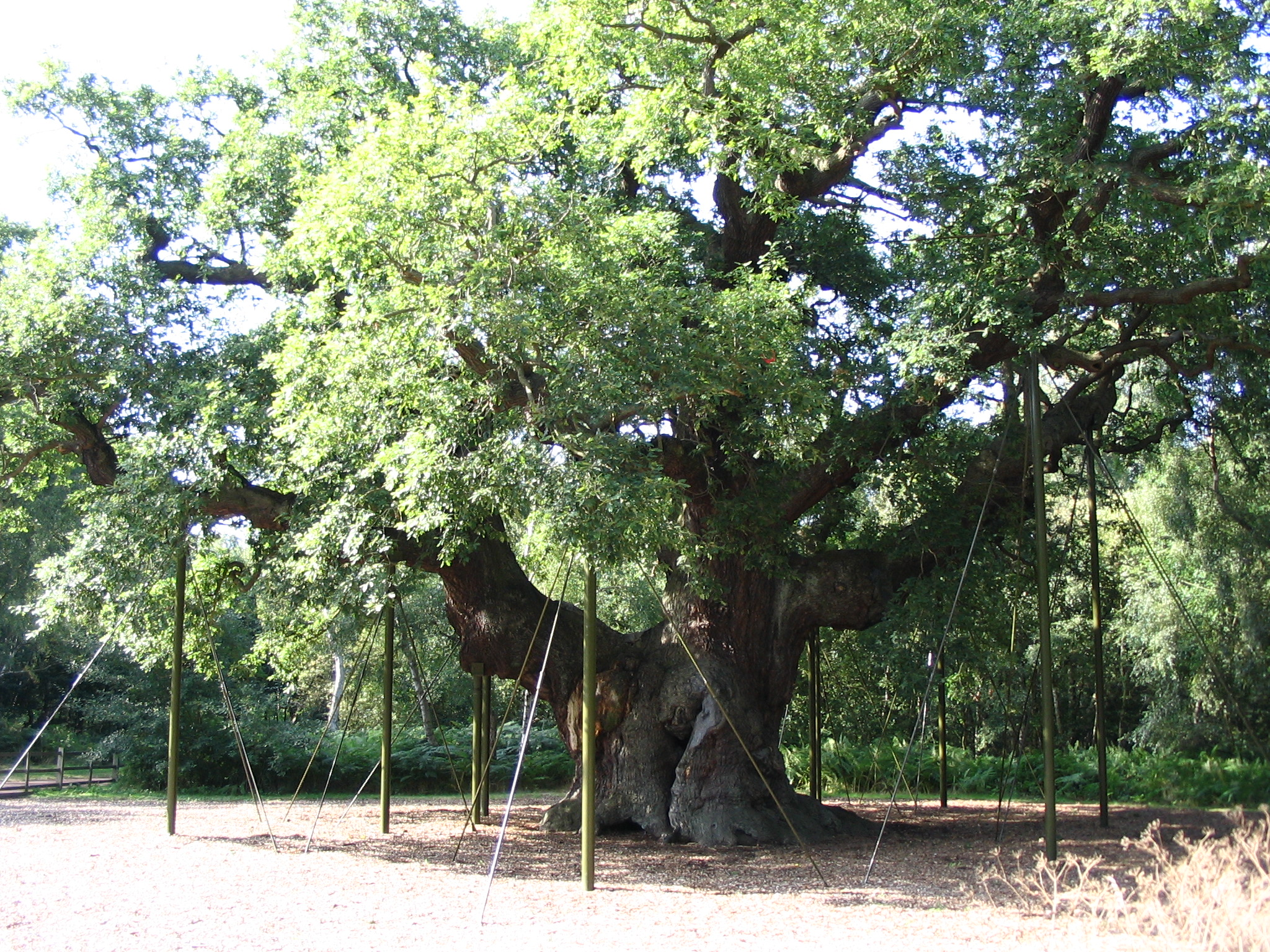 This is a picture taken by me (Javier Carro) of the Major Oak in Sherwood Forest, Nottinghamshire, England.